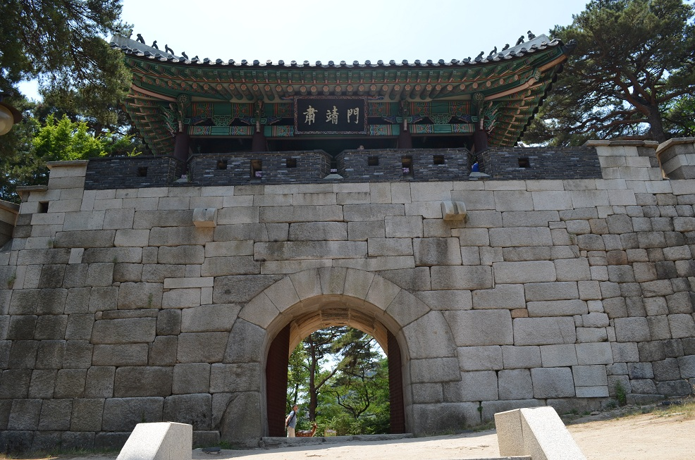 Sukjeongmun Gate, also known as North Gate or Bukdaemun, Seoul, South Korea. Photographed June 17, 2012.